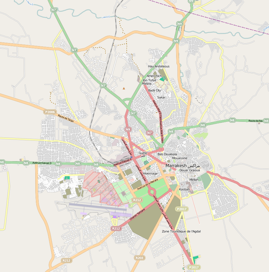 Marrakech map